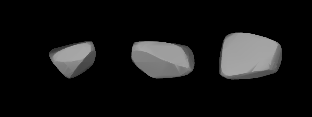 A three-dimensional model of 958 Asplinda that was computed using light curve inversion techniques.